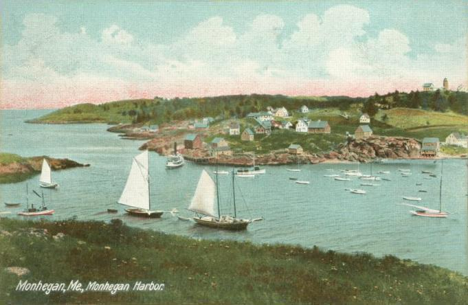 Monhegan Harbor, Monhegan Island, ME; from a 1909 postcard published by the Hugh C. Leighton Company, Portland, Maine.